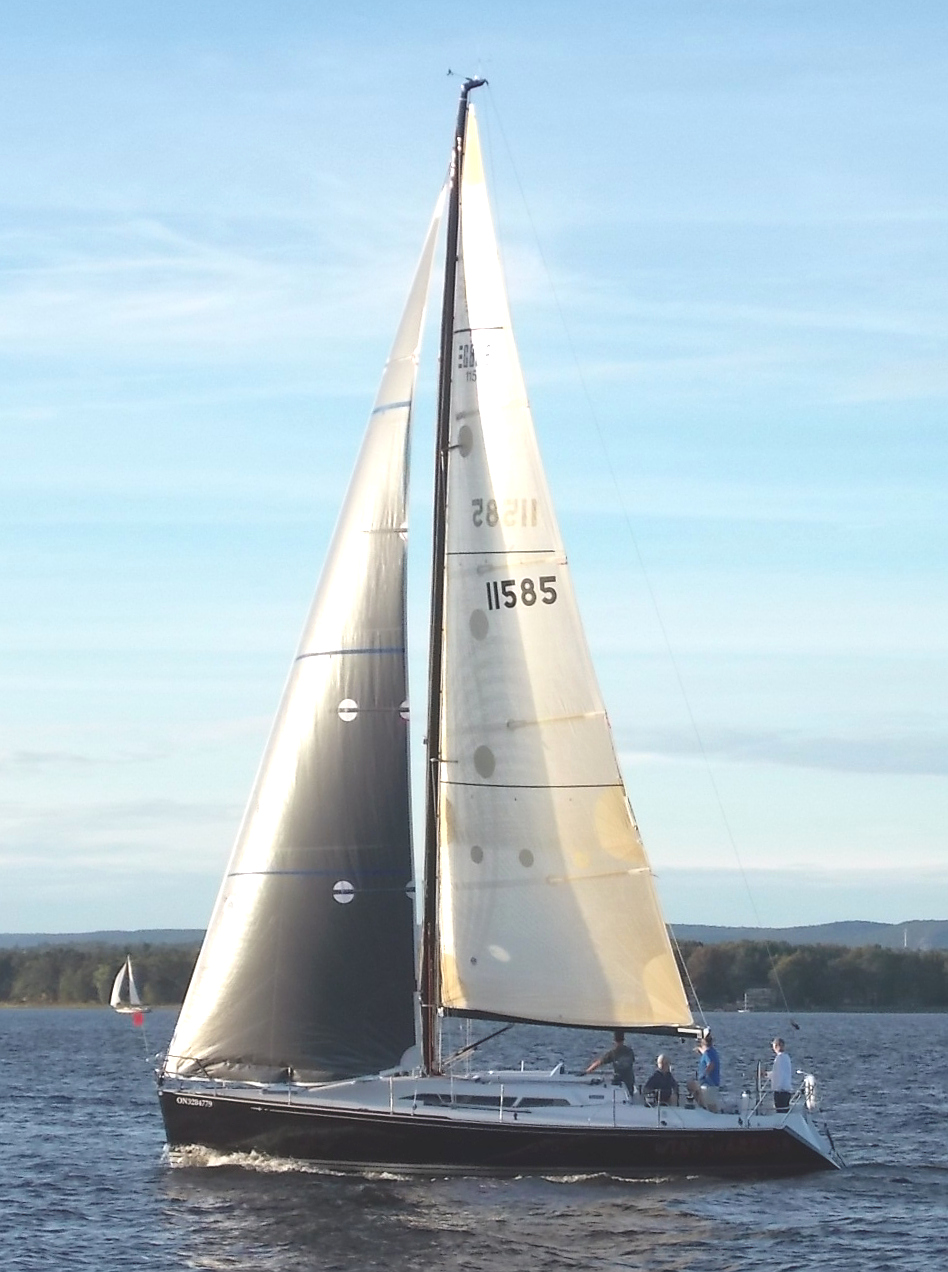 C&C 115 sailboat Wind Warrior on Lac Deschênes, part of the Ottawa River, Ottawa, Ontario, Canada